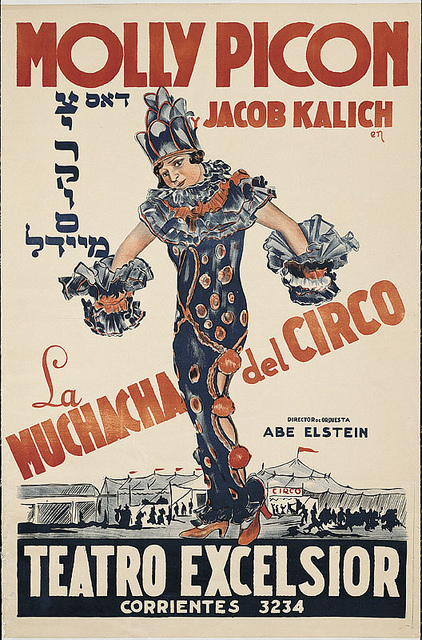 Poster of Molly Picon for the play La Muchacha del Circo